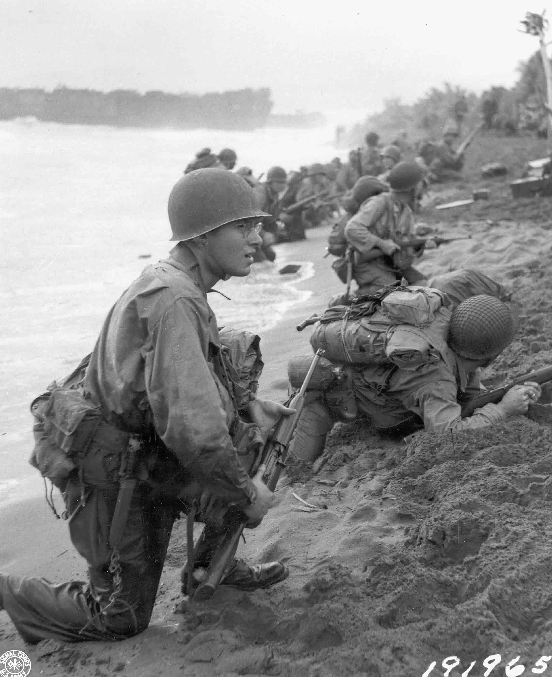 Onto the Beach: American Soldiers moving ashore at Aitape, New Guinea, 22 April 1944.